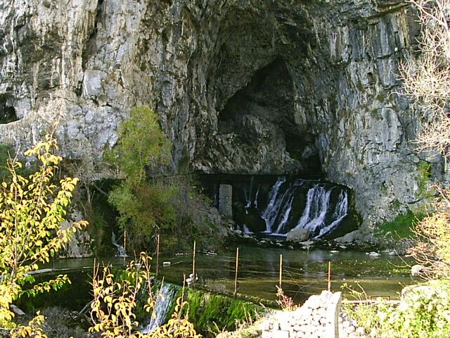 Spring of the Bistrica River near Livno, BiH